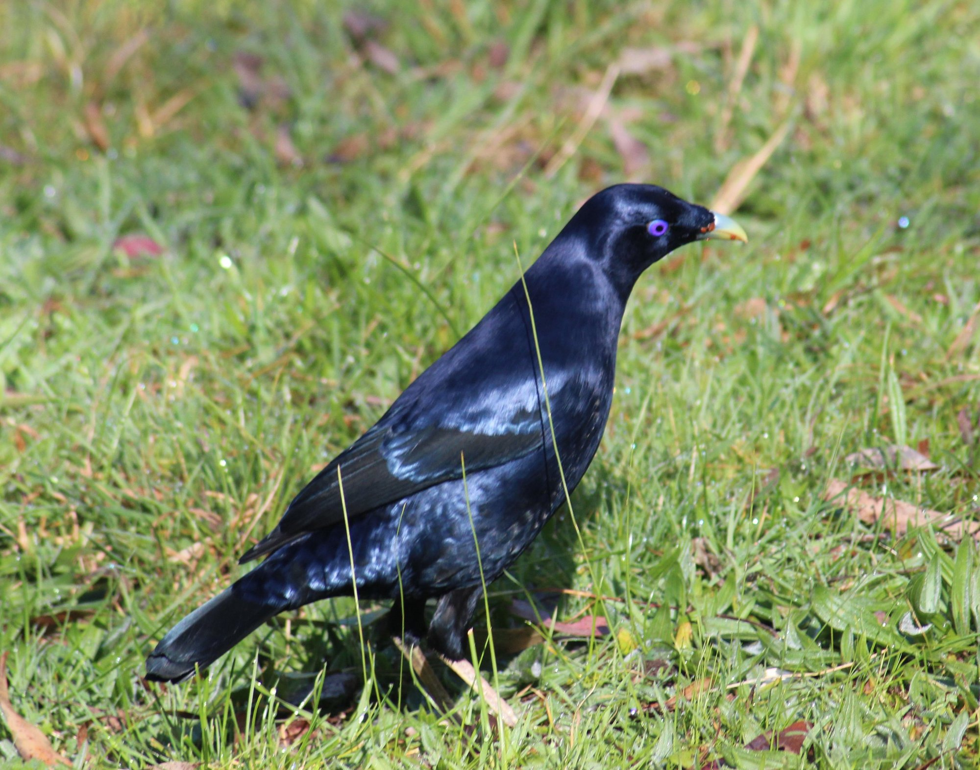 A male Satin Bowerbird near Sheepyard Flat Campsite, Howqua Hills, Victoria, Australia.